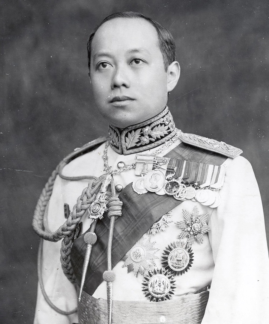 Photographic portrait of King Vajiravudh (Rama VI) of Siam